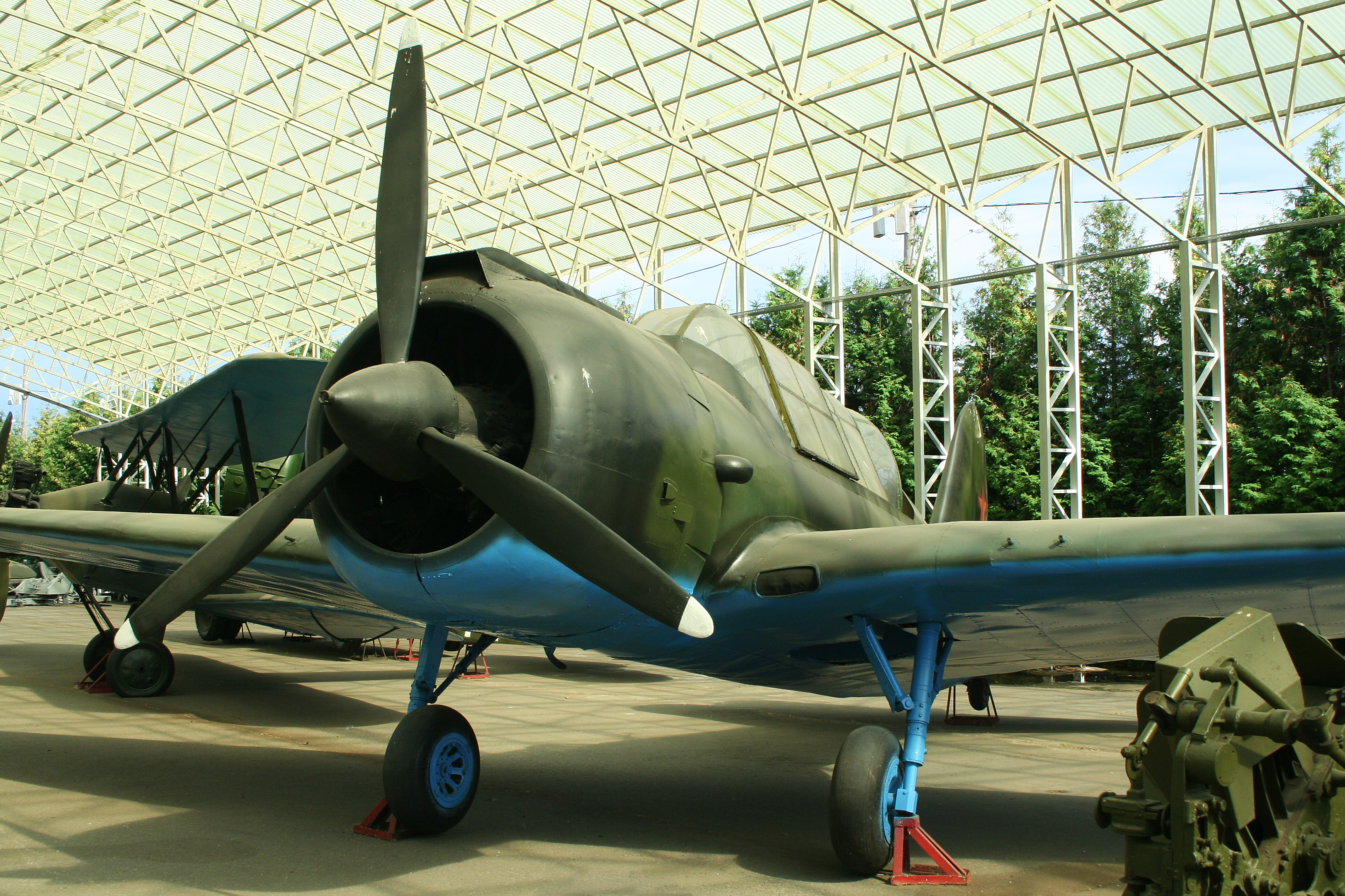 This pure mock-up is in remarkably good condition, considering how long it was displayed outside for. On display at the Museum of the Great Patriotic War in Victory Park, Moscow. 11-8-2012